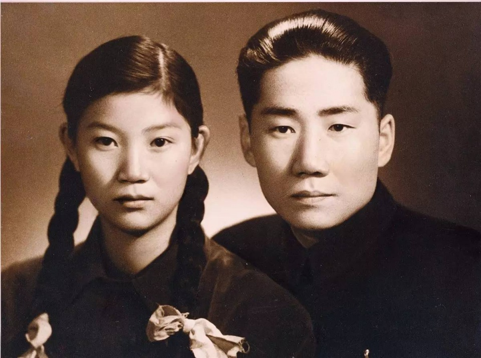 Wedding photograph of the Mao Anying and his wife Liu Songlin. 刘松林与毛岸英合影